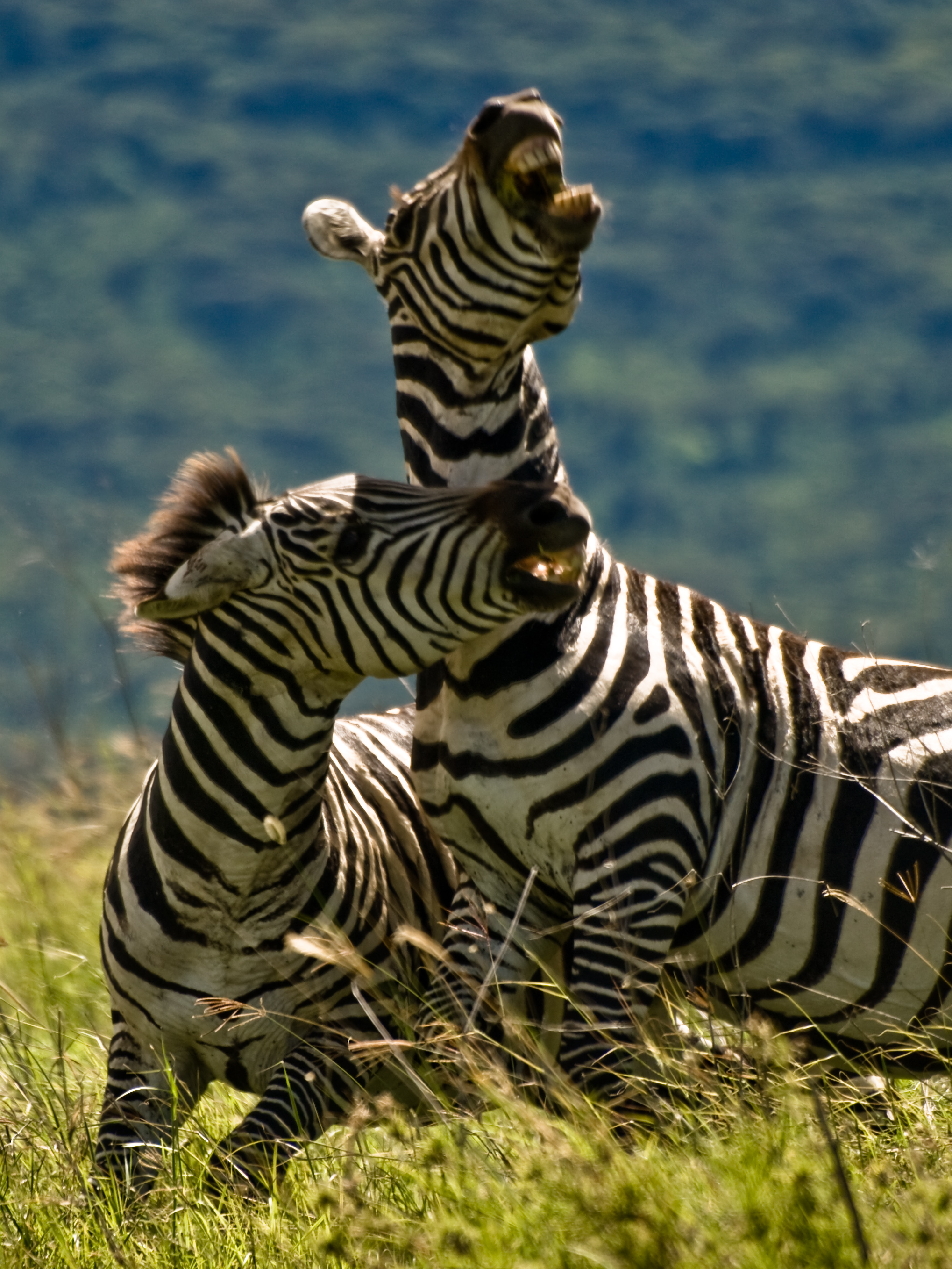 Two zebras fighting in the Ngorongoro Crater, Tanzania